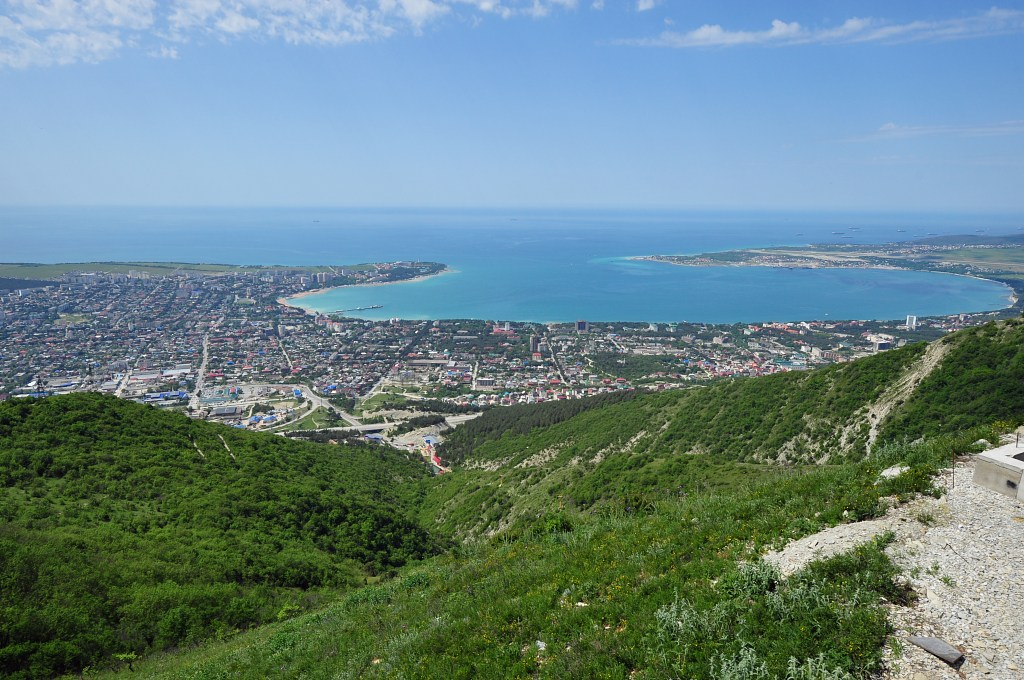 A view of Gelendzhik town and the Gelendzhik Bay of the Black Sea